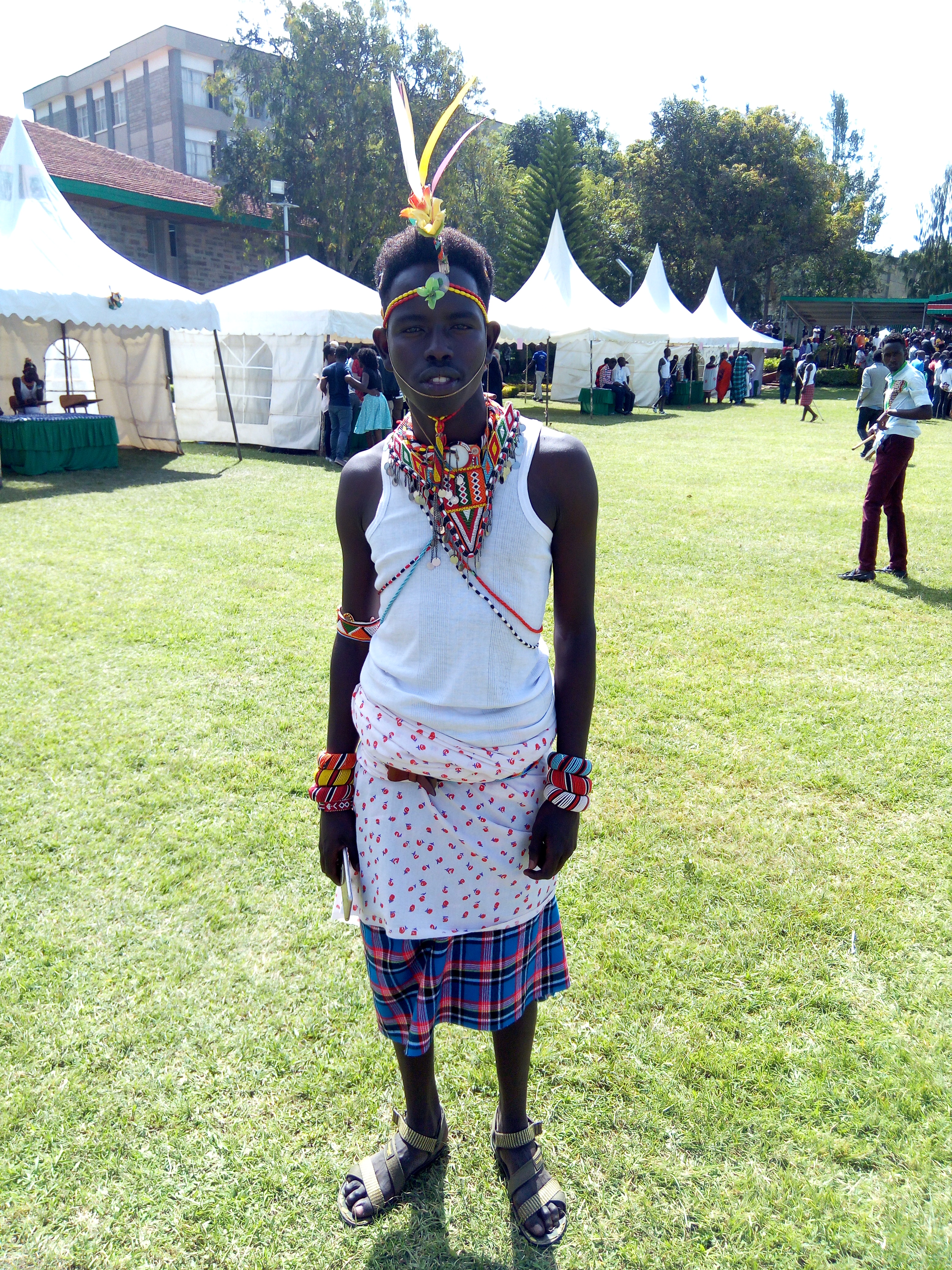 Egerton University, Kenya,promotes cultural integration between its students who come from various parts of the country and Africa at large, through a culture week that happens annually. This student from Pokomo community showcases his heritage by wearing the cultural clothes This photo has been taken in the country: Kenya